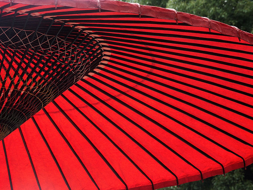 This photograph shows a parasol at a temple in Kyoto, Japan.